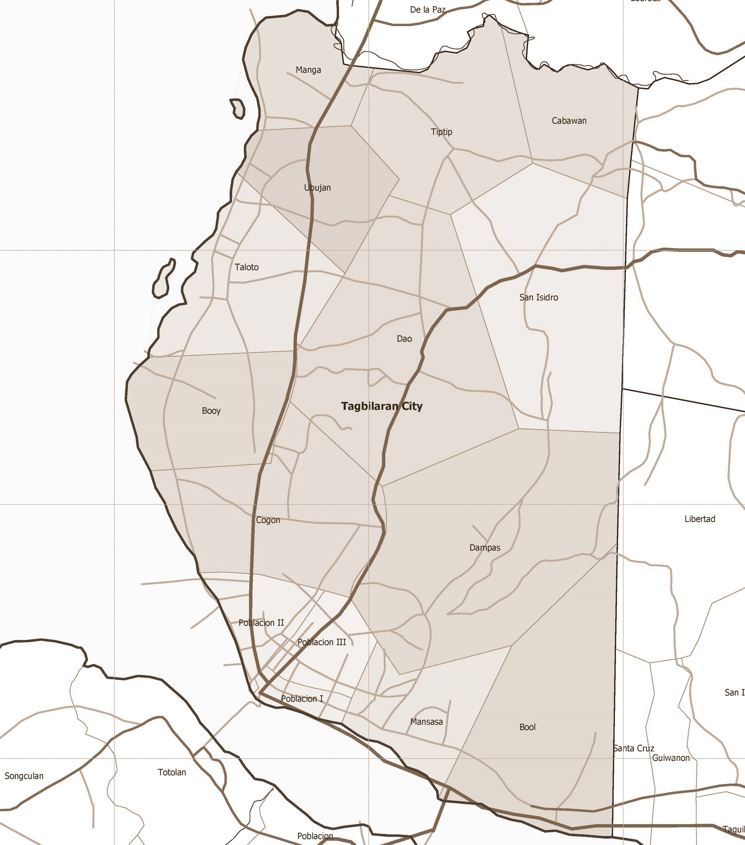 Tagbilaran, Bohol showing barangays and islands